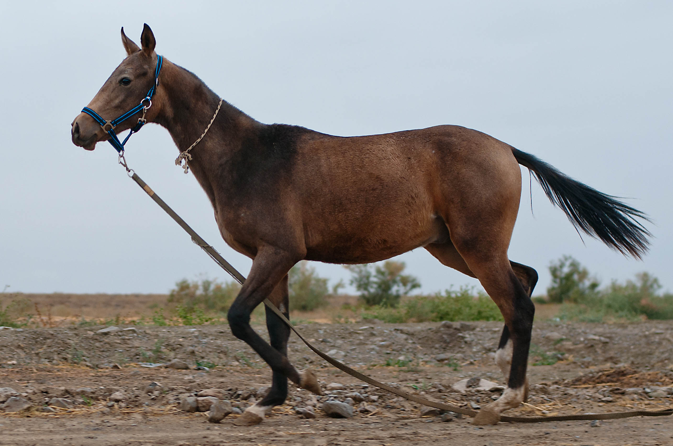 a wonderful visit to an Akhal-Teke studfarm in the mountains of Turkmenistan